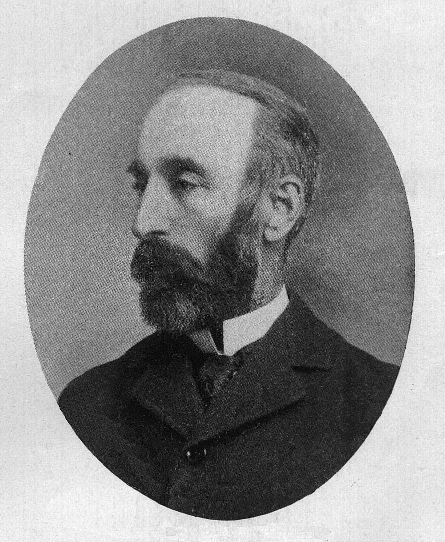 George Henry Perkins, Vermont state entomologist and geologist, and professor of geology University of Vermont